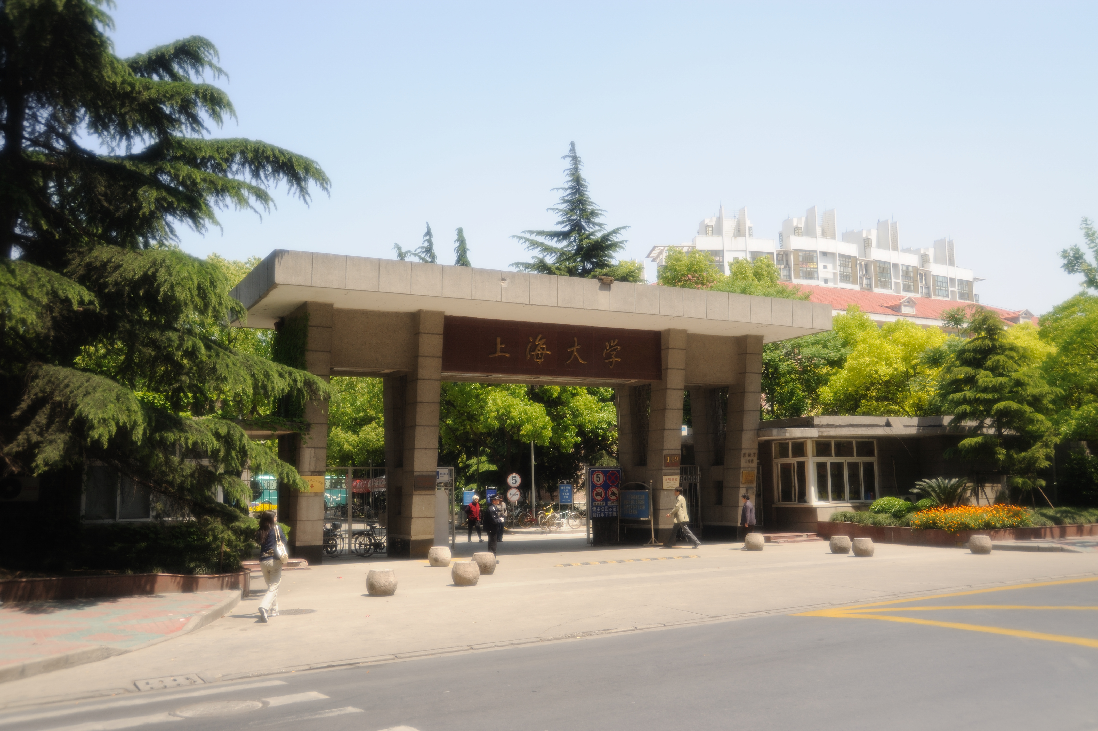 the gate of Shanghai University YanChang Campus